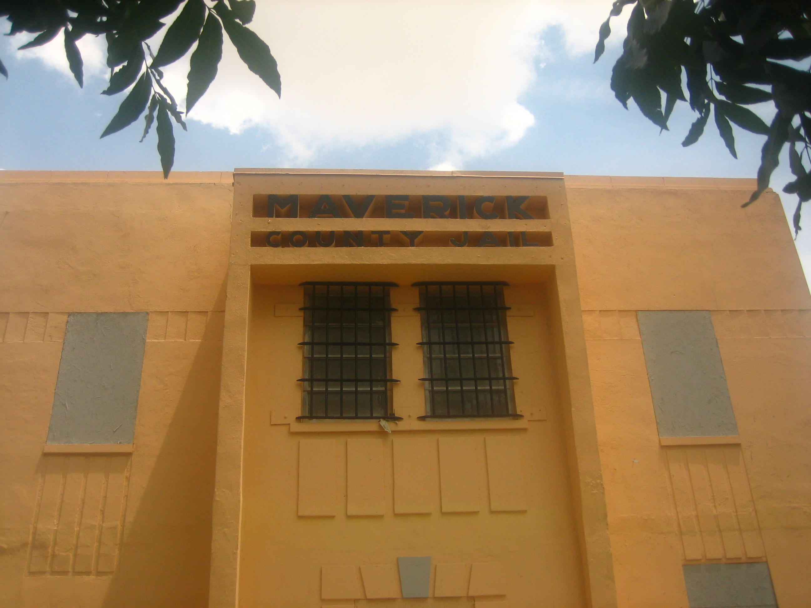 I took photo on Aug. 16, 2008.Billy Hathorn (talk) 00:43, 17 August 2008 (UTC)